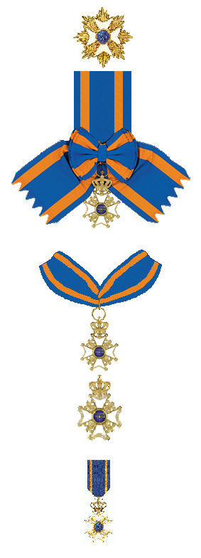 Order of the Dutch Lion